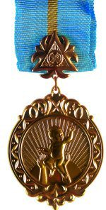 "Altyn alka" (Golden Pendant) is a state award of Kazakhstan. The "Altyn alka" pendant was introduced in 1993. It is awarded to mothers who have given birth to and brought up ten or more children.